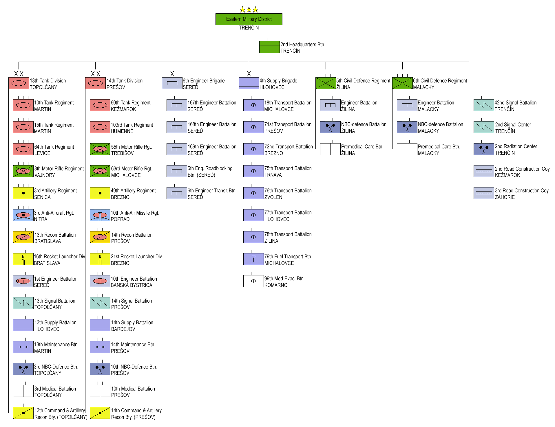 Military of Czechoslovakia: Eastern Military District Operational Structure in 1989